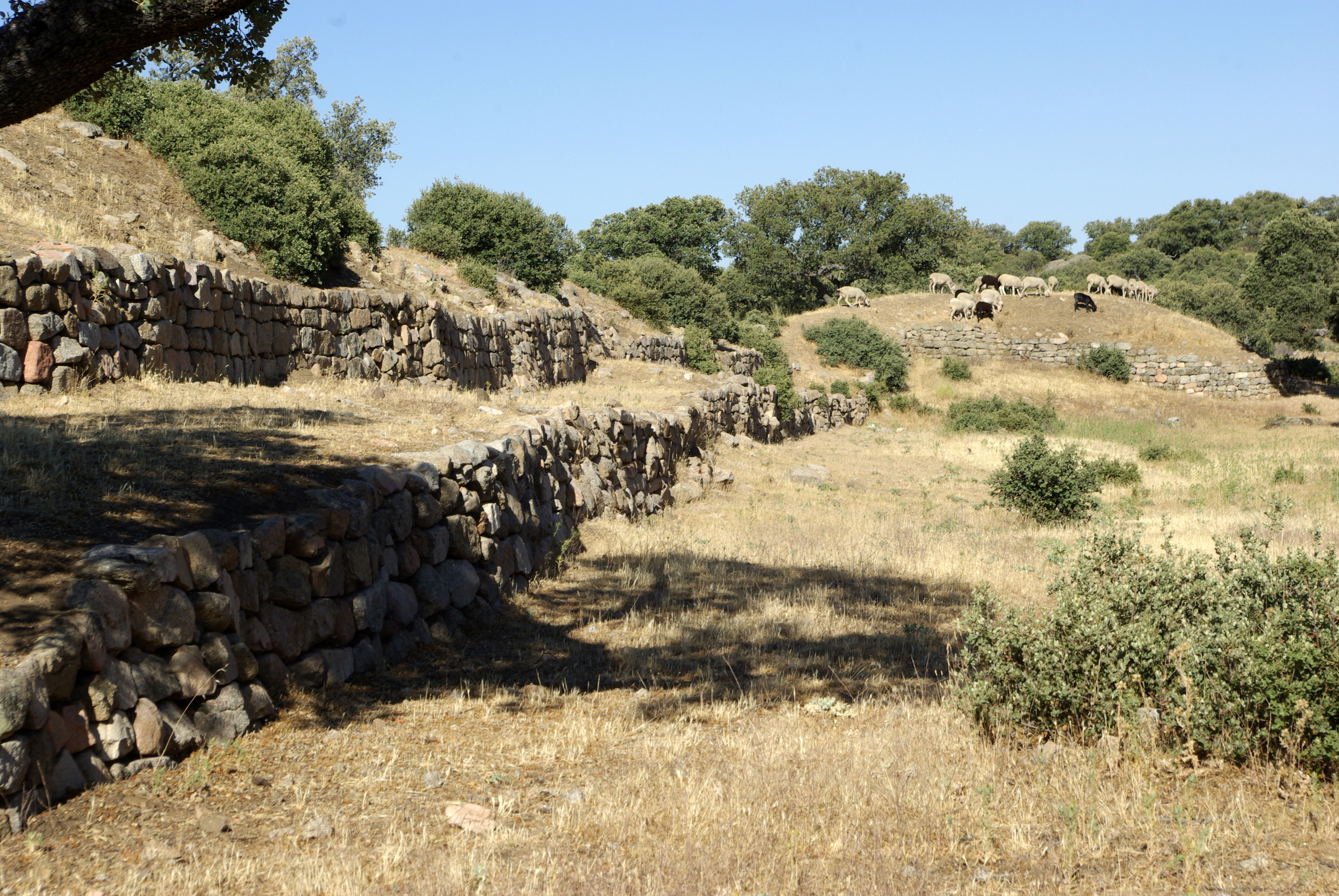 Hill fort of La Mesa de Miranda. Chamartín (Ávila, Spain). Sheep are used to prevent weeds growth.